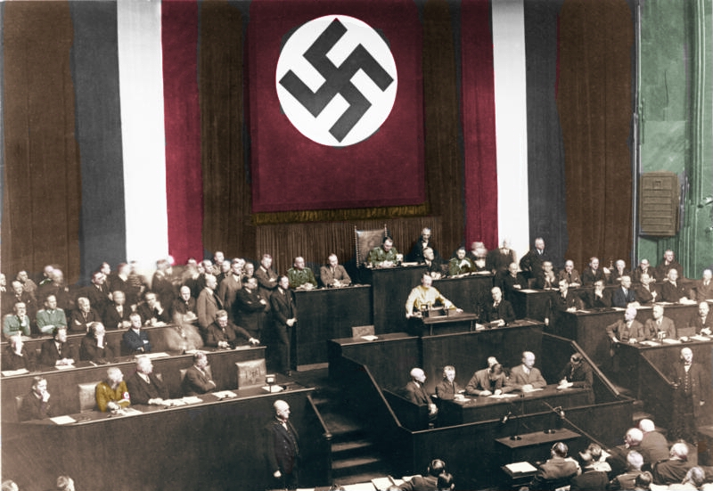 Adolf Hitler gives a speech regarding the Enabling Act